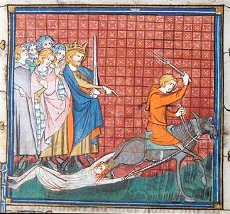 Brunehilde